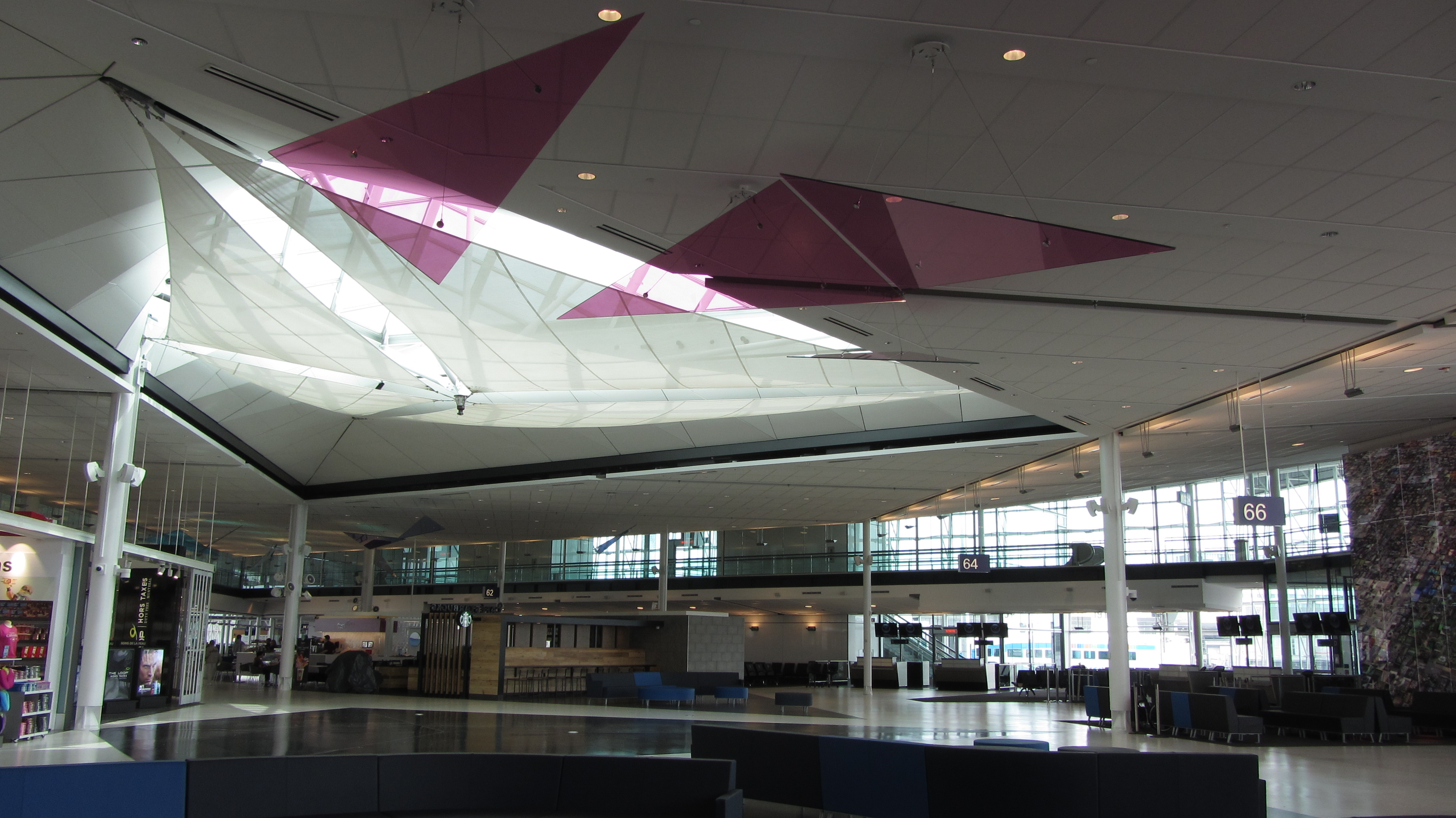 The newer addition in the international jetty